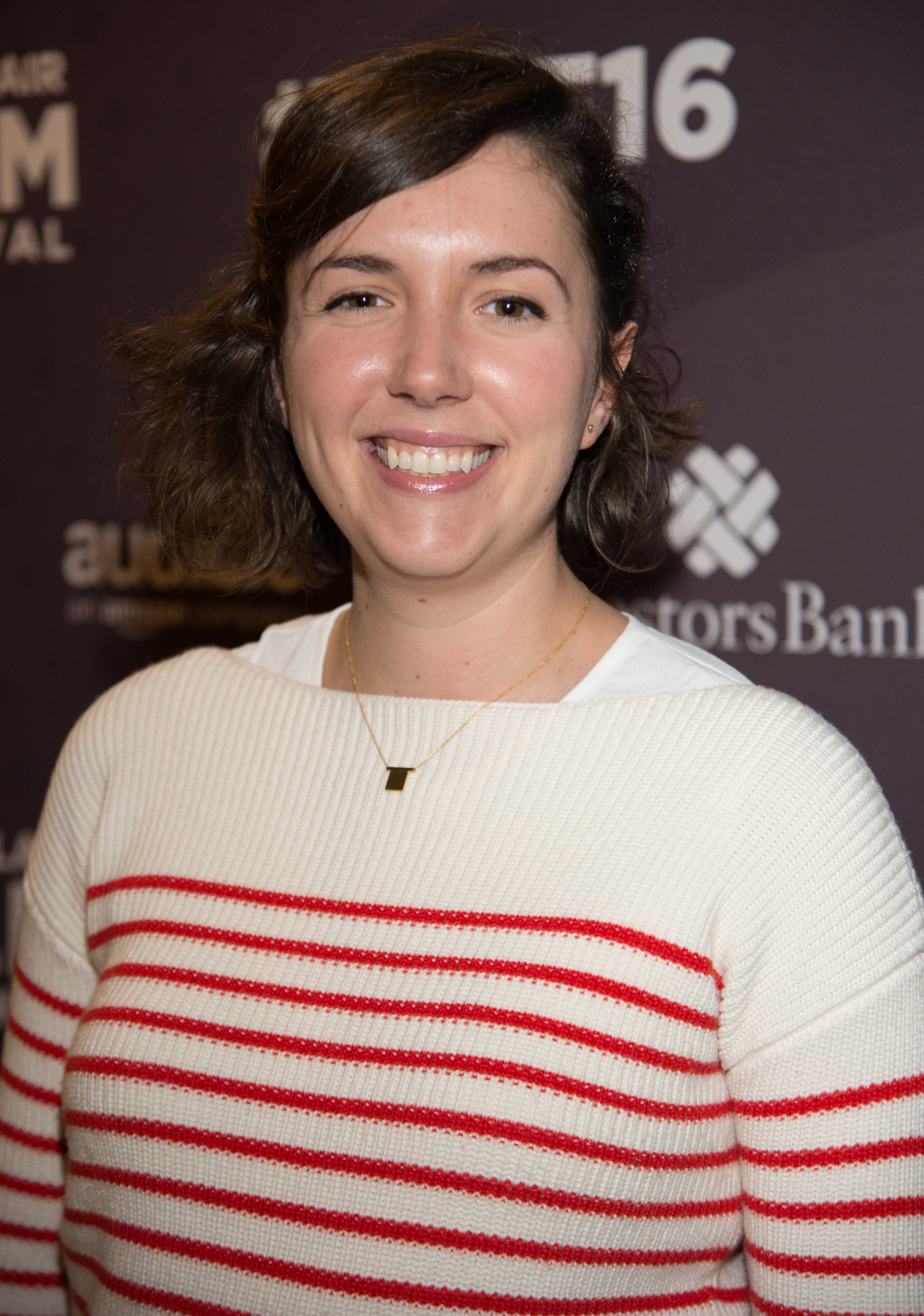 Kristine Stolakis (Where We Stand) Photo courtesy of Dan D'Errico, Montclair Film Festival